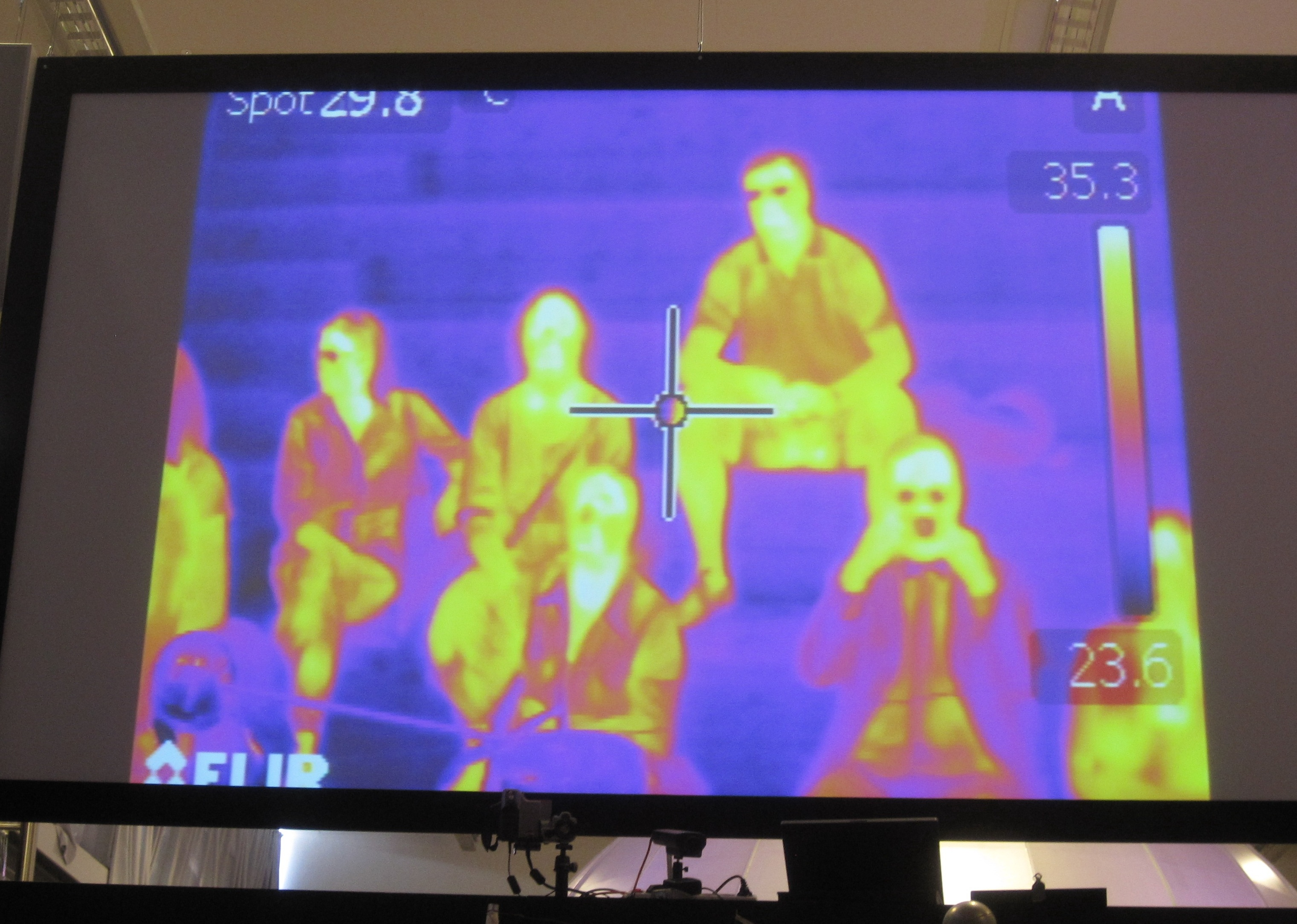 A group of people pictured by a forward looking infrared camera at Vattenhallen Science Center at the Faculty of Engineering (LTH), Lund University